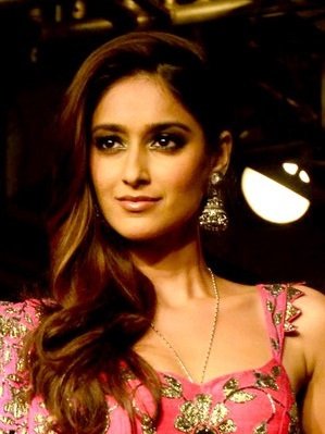 Ileana D'Cruz at the Lakme Fashion Week, 2014